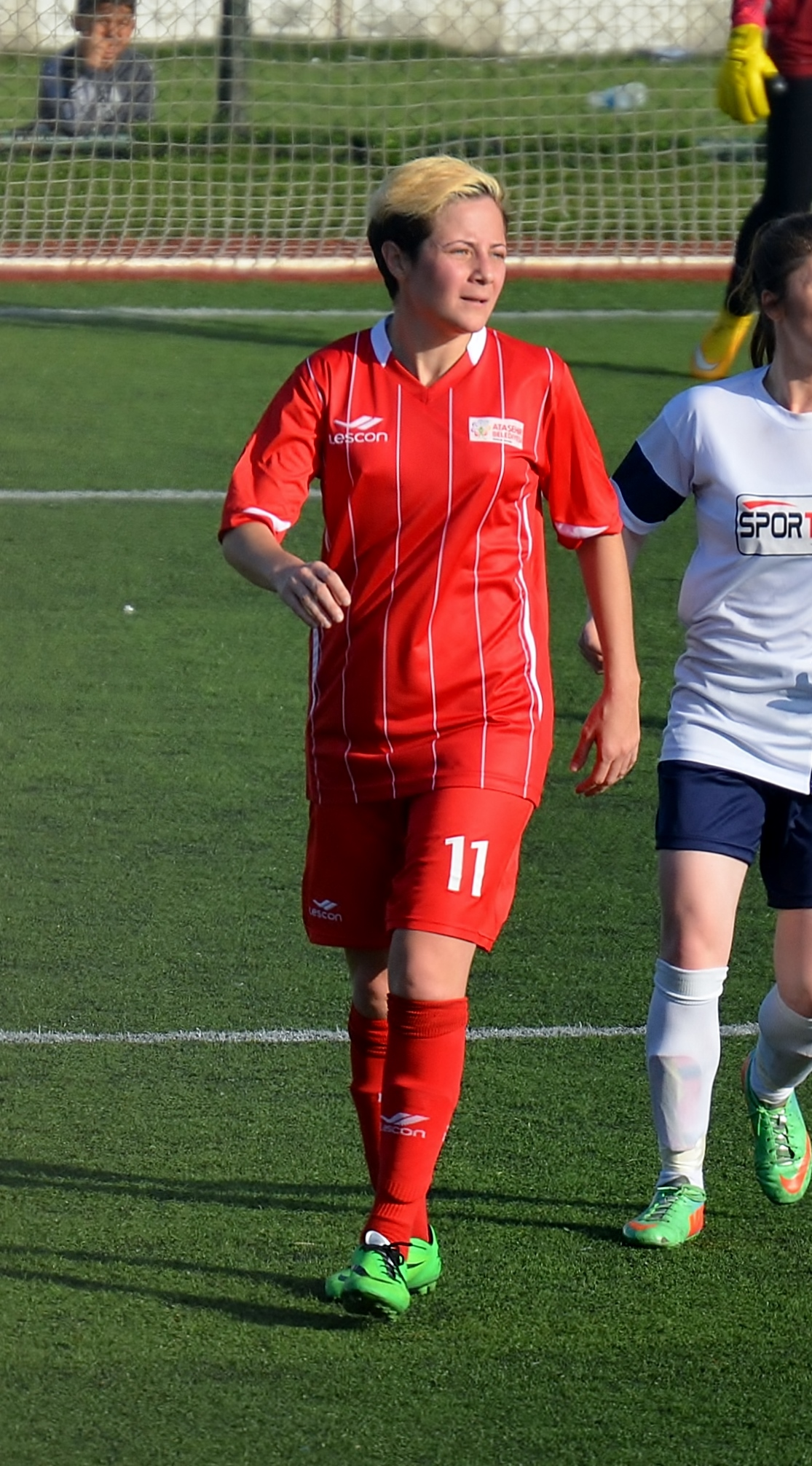 Hatice Bahar Özgüvenç playing for Ataşehir Belediyespor in the 2014-15 season